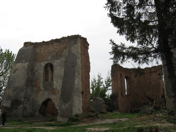 Ruins of dominican church, destroyed by soviet aerial bomb in 1944